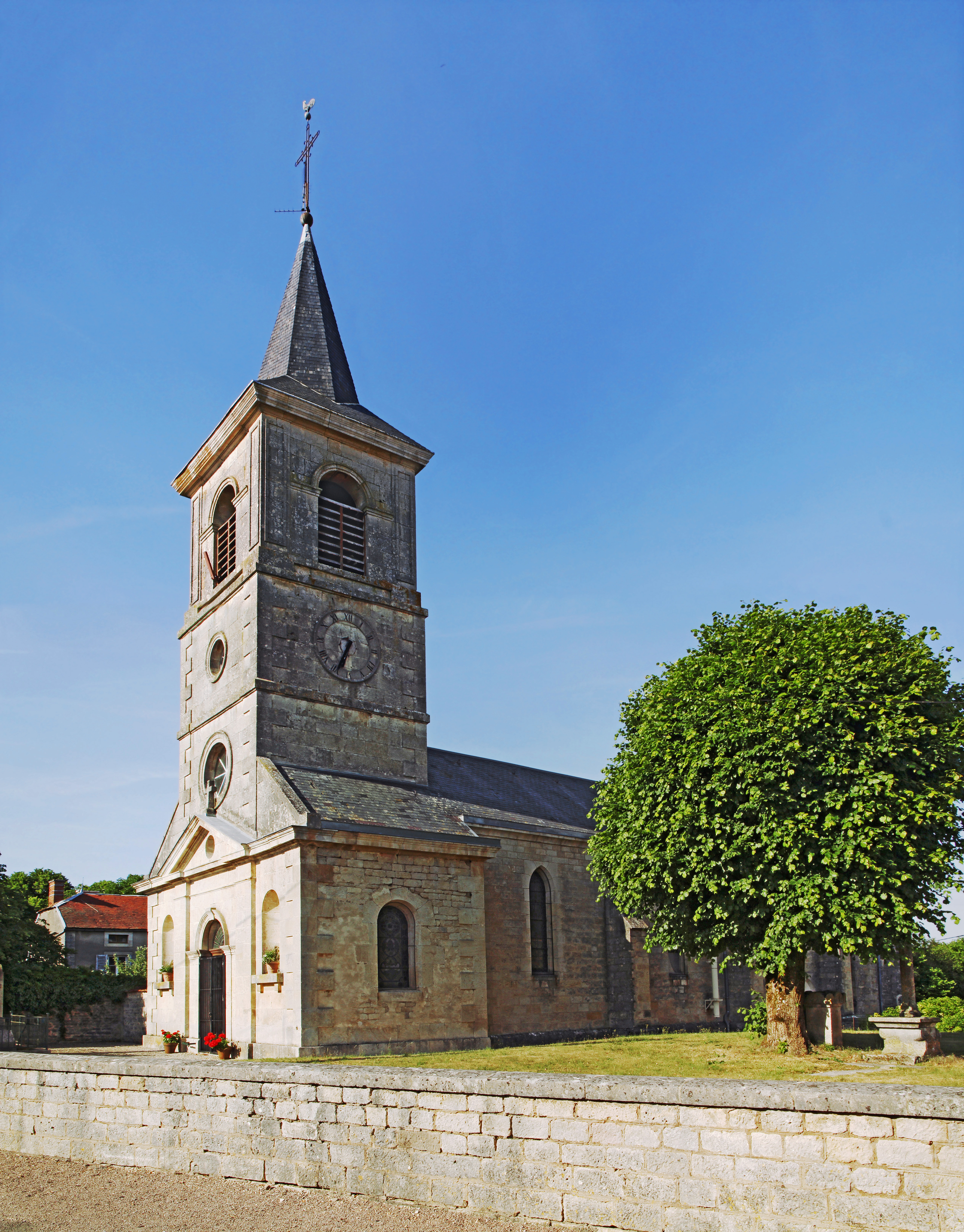 Church of Saint Medardus in Essarois